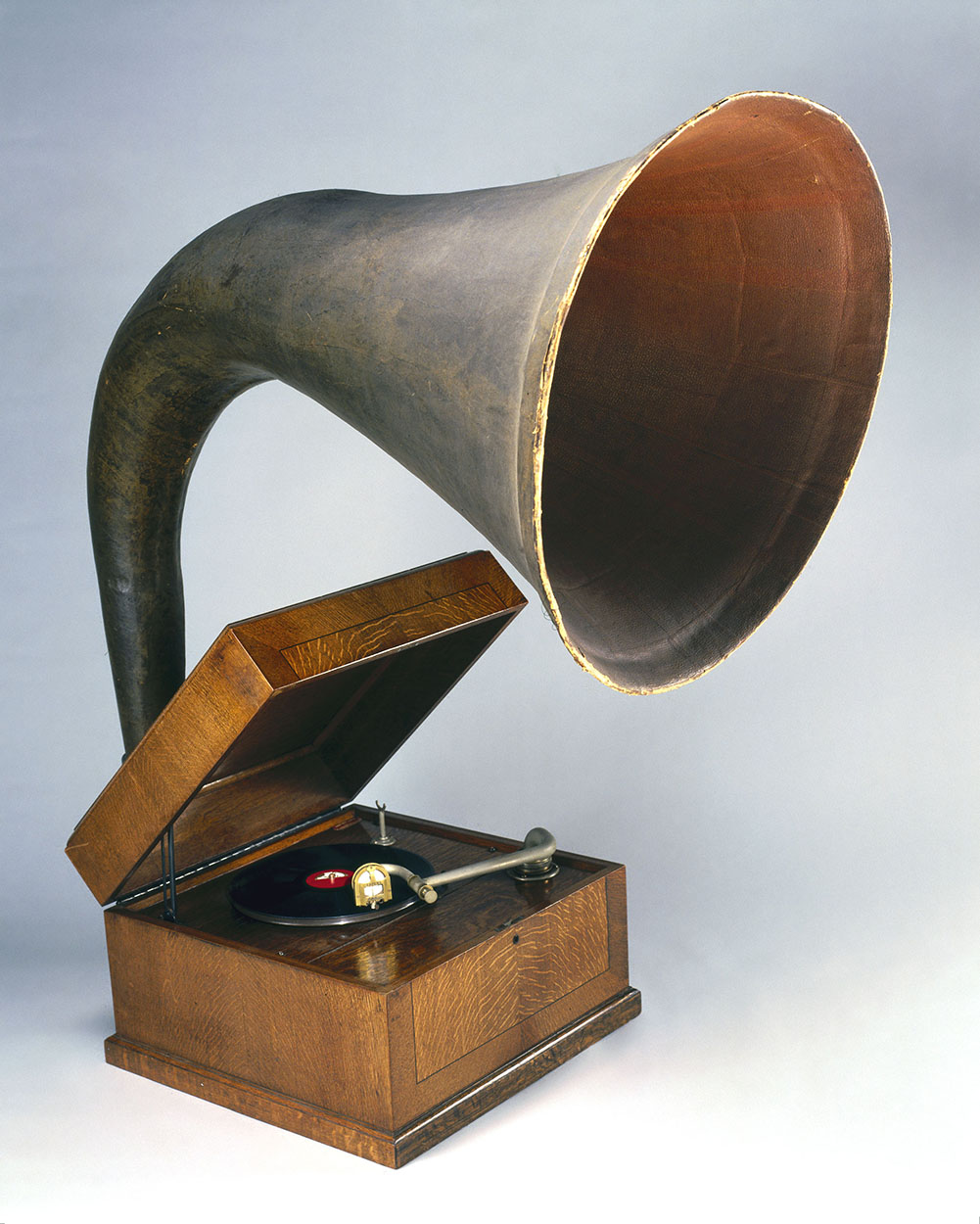 The S-shaped horn first appeared on EMG gramophones with the Mark X in 1929. The Mark Xa, which appeared late in 1930, had a 28-inch diameter horn, and the Xb (late 1933) measured 29.5 inches across the mouth. There followed (in 1935) the Mark Xb Oversize, at 33.5 inches. EMG acoustic gramophones were available into the 1940s. NOTE: This photograph is not actually of an EMG Mark Xb gramophone, but of an Expert Senior gramophone.